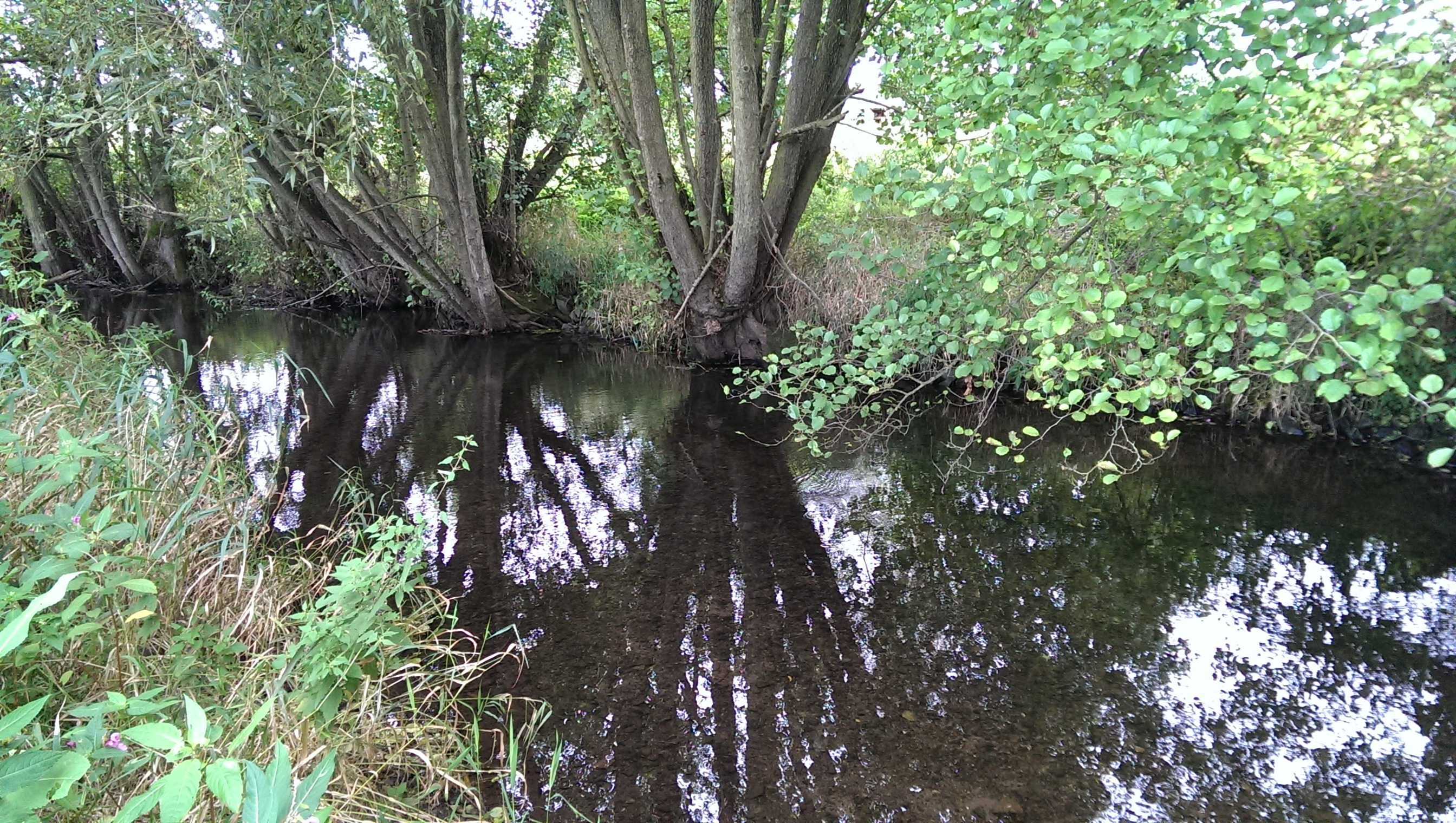 The River Zorge in Woffleben (Thuringia).